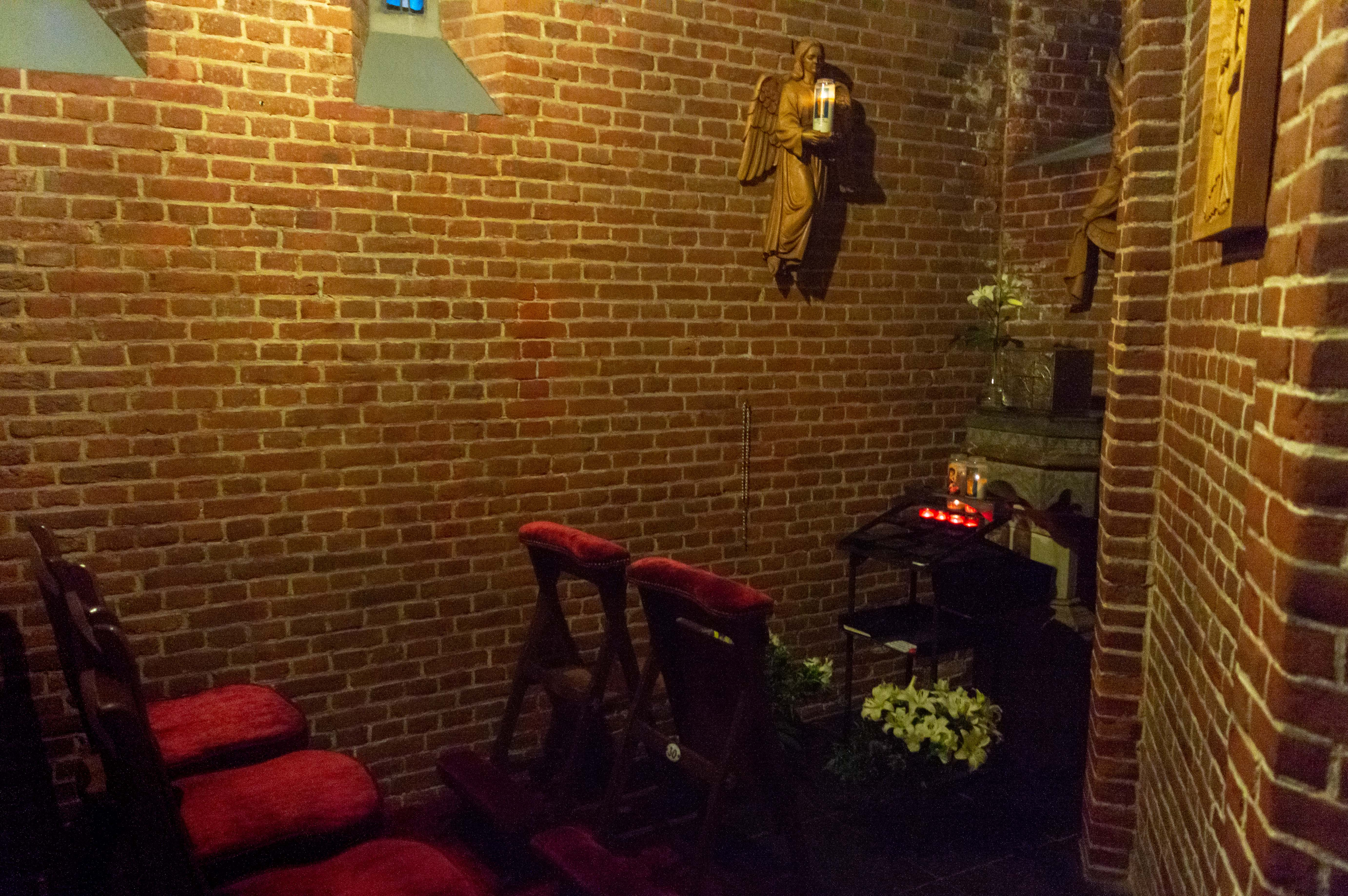 The chapel of Altijddurende Aanbidding of the Heuvelse kerk in Tilburg, being empty.